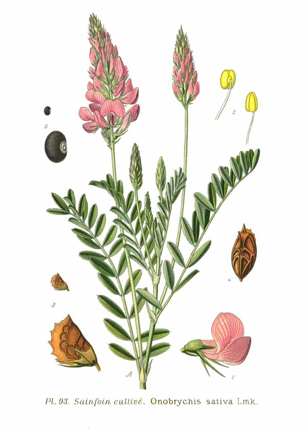 Onobrychis viciifolia Lmk.